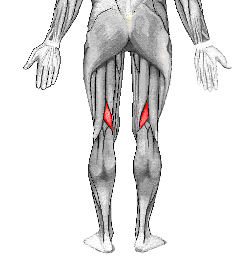 Músculo semimembranoso * Original by Användare:Chrizz, 30 maj 2005 * compressed with pngcrush